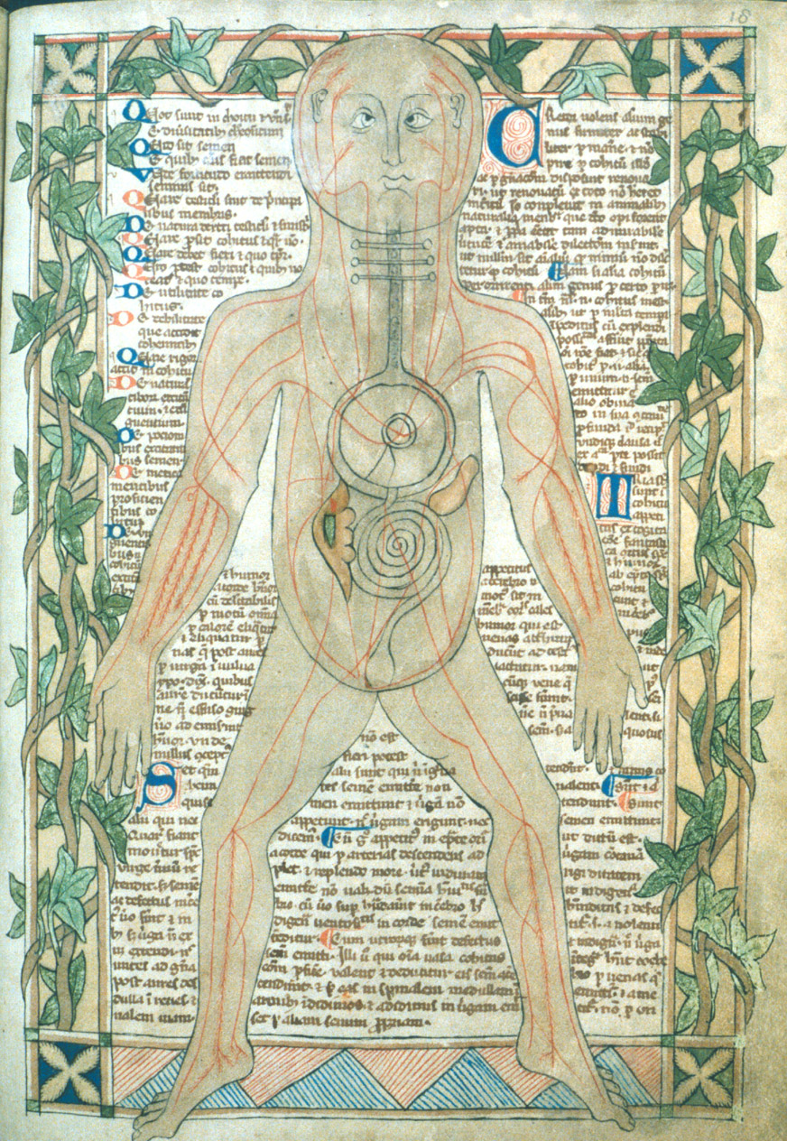 Anatomical illustration showing the veins.